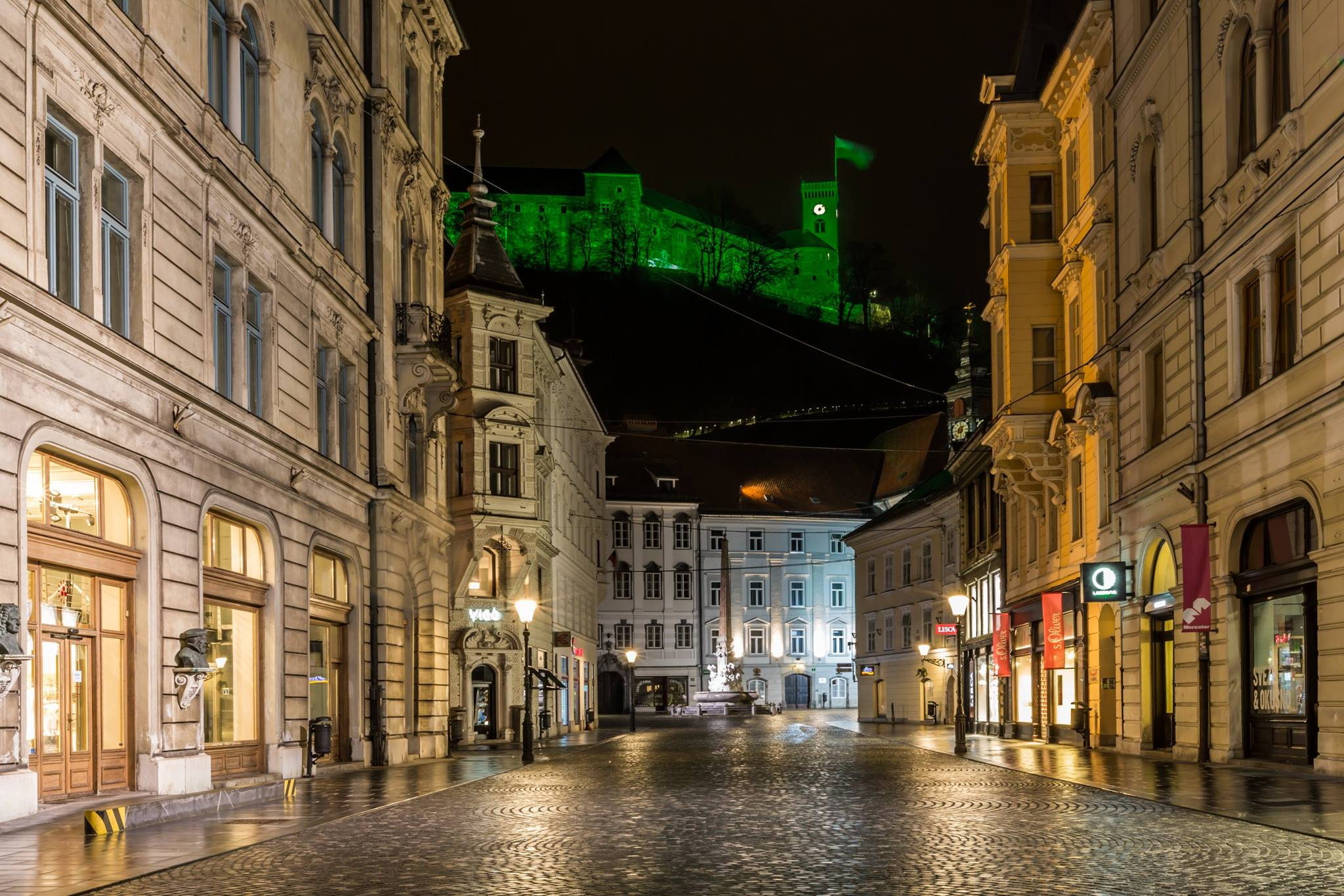 Stritarjeva ulica, Ljubljana